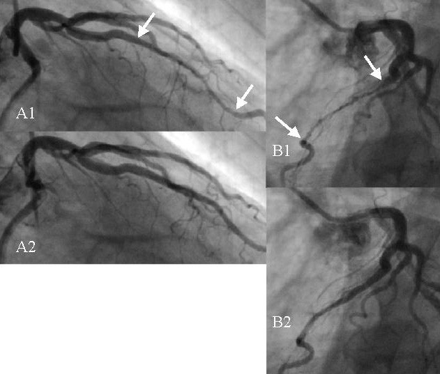 Angiographic images showing a bridge on the left anterior descending coronary artery (LAD) in a male patient of 65 years. A1) Right anterior oblique view taken at end systole. The compressed vessel segment is indicated by the two arrows. B1) Left anterior oblique view taken nearly at the same instant. A2) Same view as in A1, but taken 133 ms later. The tunneled segment is no longer compressed. B2) Same view as in B1 but 133 ms later.